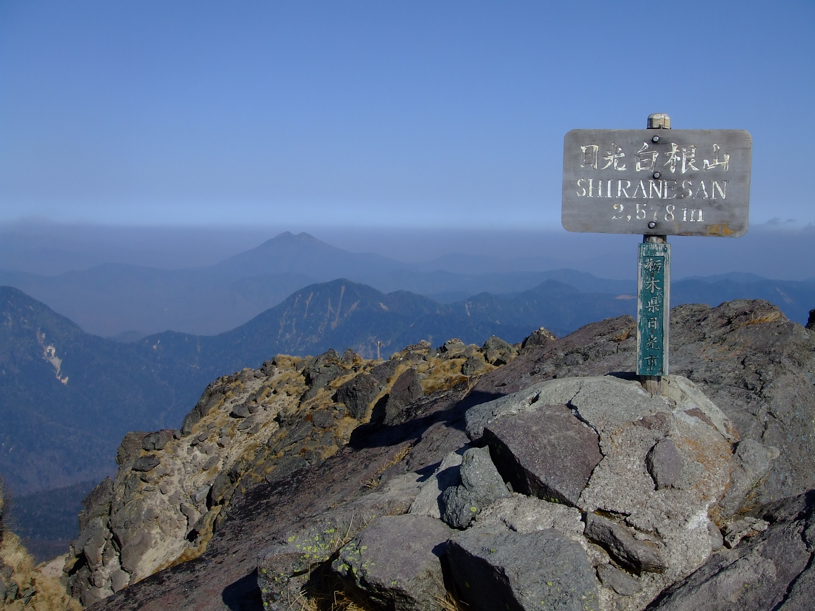 Summit of Nikko Shirane-san in the Nikko National Park, Japan. I took this photo with a digital camera on 5th November 2006.